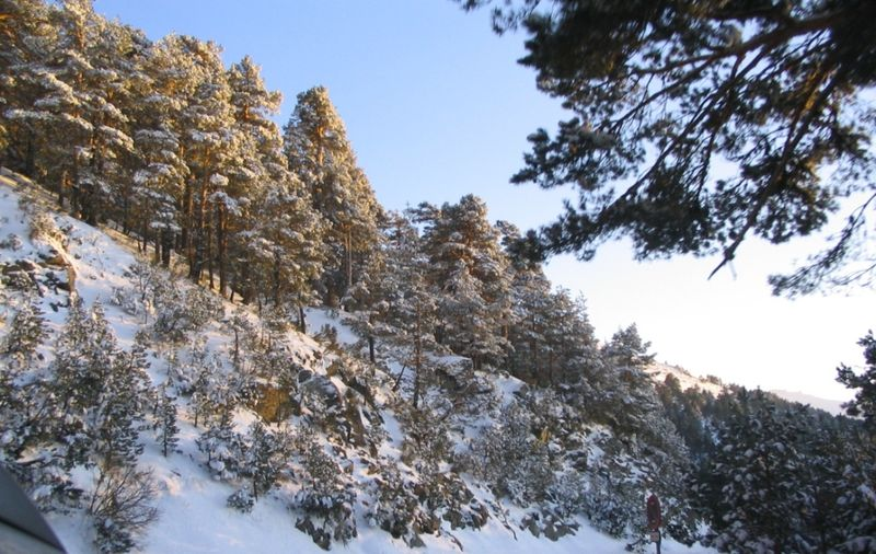 Pinus sylvestris forest of the Sierra de Guadarrama